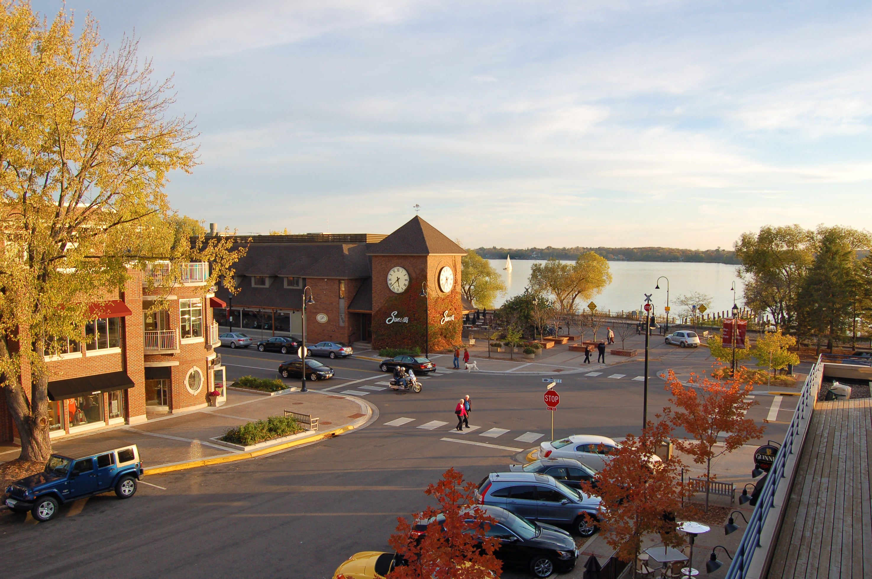 Evening over downtown Wayzata, October 2011.